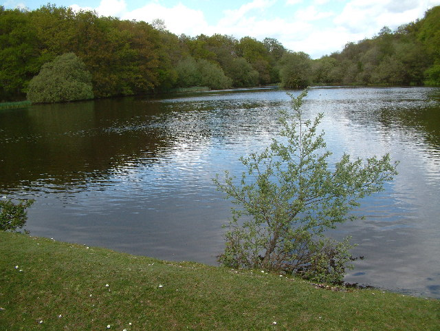 Eyeworth Pond, Fritham. Eyeworth Pond was created in 1871 to provide water for the Schulze gunpowder factory. This is now home to many types of ducks including the brightly coloured mandarin duck.